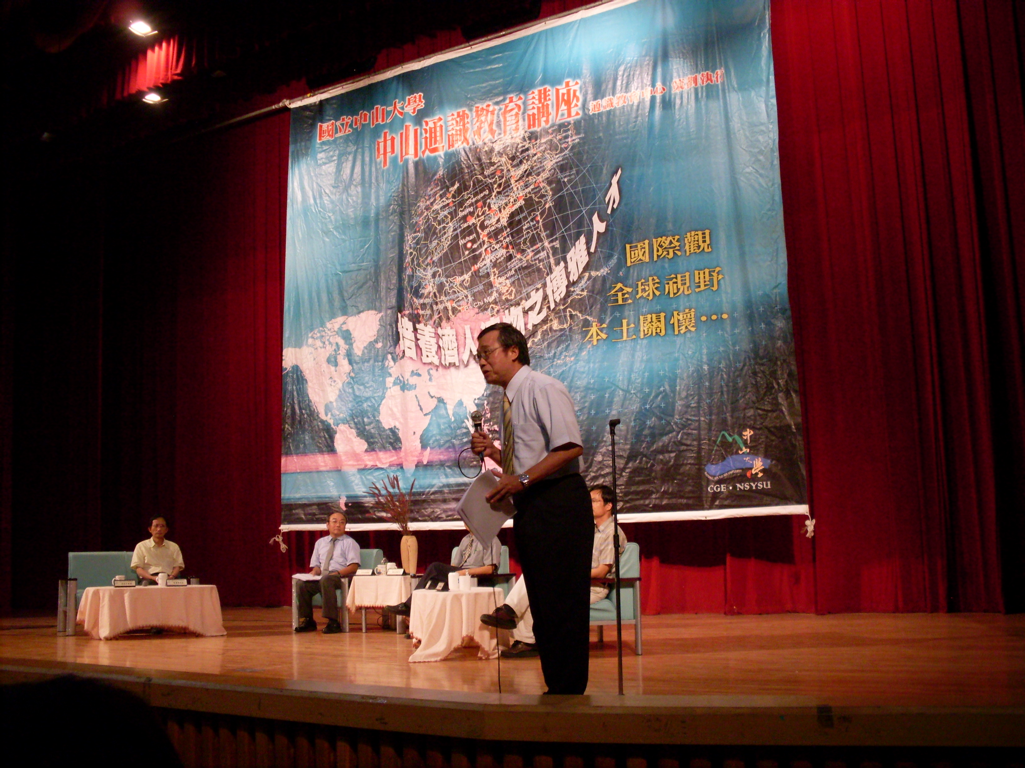 National Sun Yat-sen University